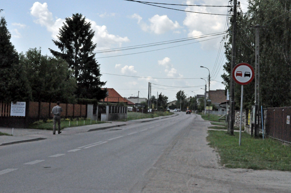 Entrance to the village from Warsaw